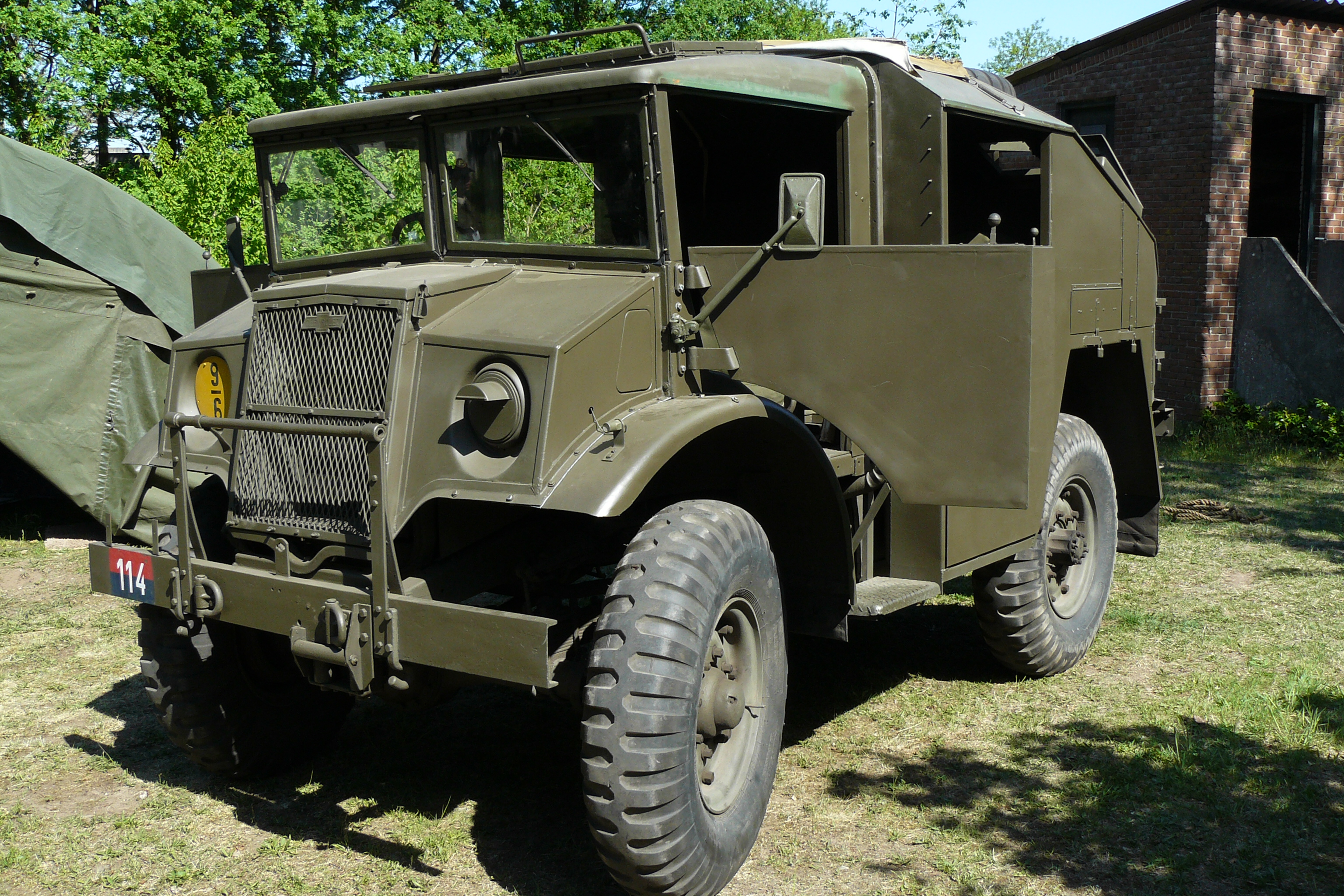 Chevrolet Field Artillery Tractor (FAT). Seen at Bridgehead, Bussum (Netherlands). Date: May 2008